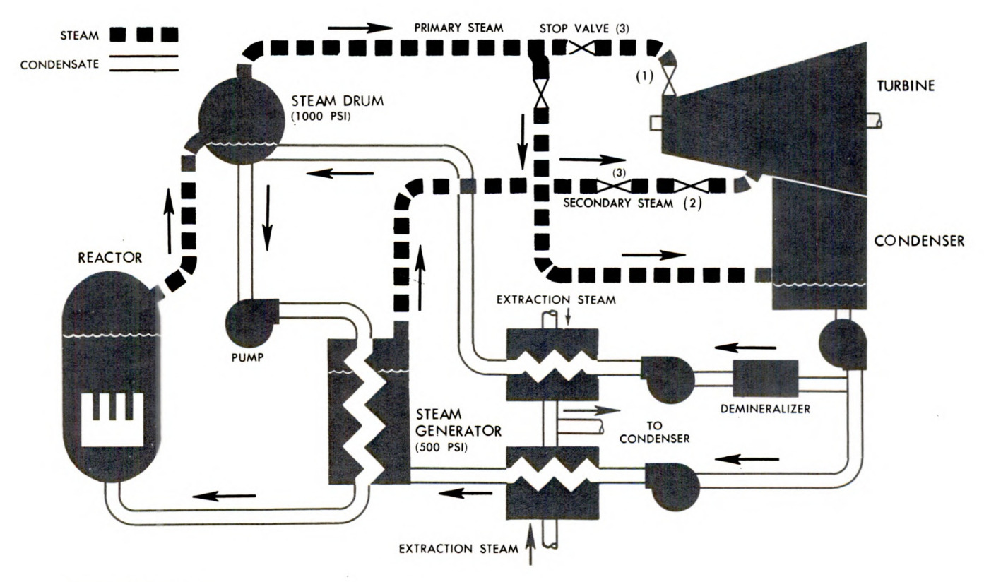 This shows the power cycle of the Dresden 1 power plant, including how the hot coolant from the reactor moves to the turbine and pumps.